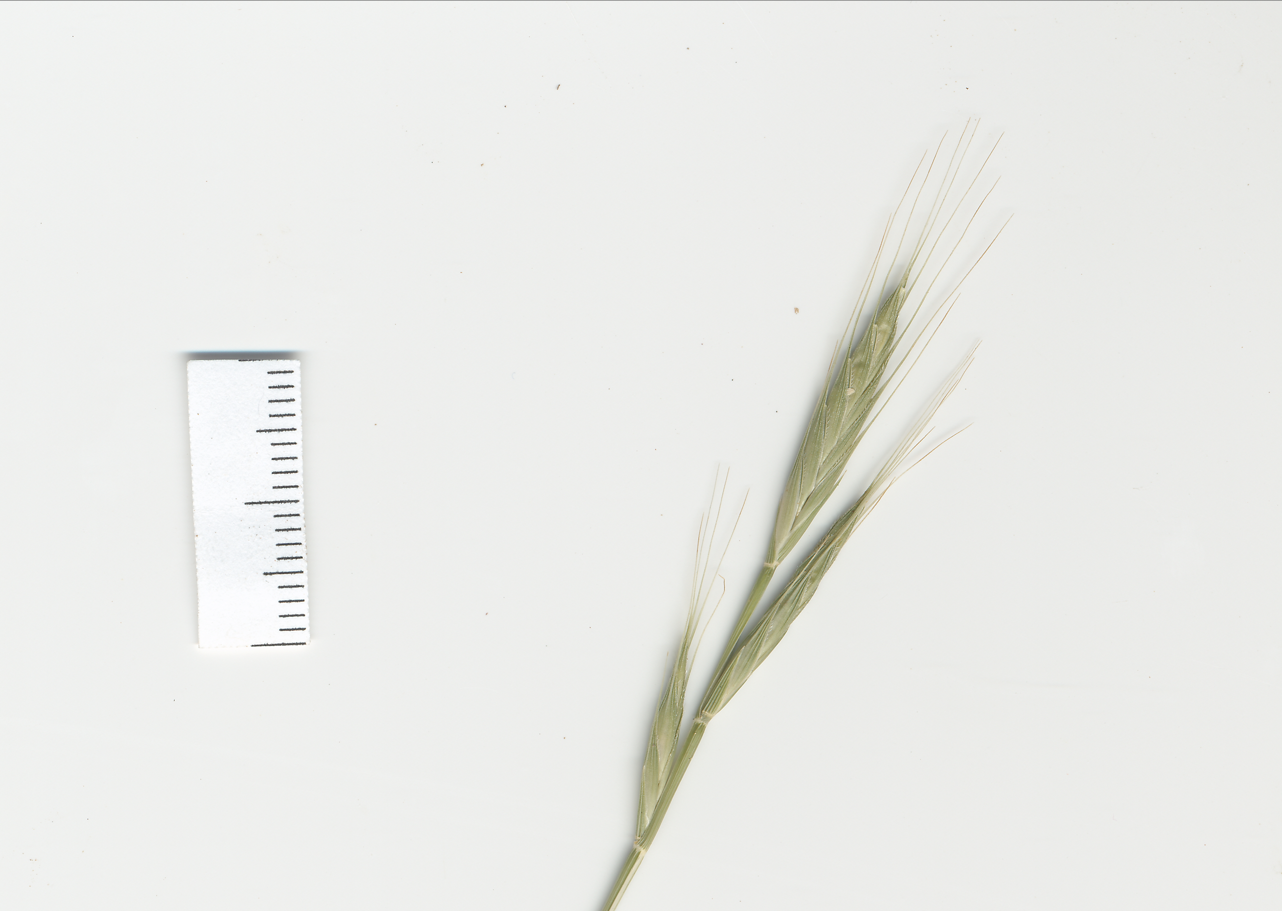 Flowerheads are erect spike-like racemes 2–4 cm long, with 1–6 spikelets. Spikelets are slightly flattened, 7-15-flowered and 20–40 mm long. Glumes are shorter than the lemmas. Fertile lemmas have a straight or curved, terminal awn that is longer than the lemma.